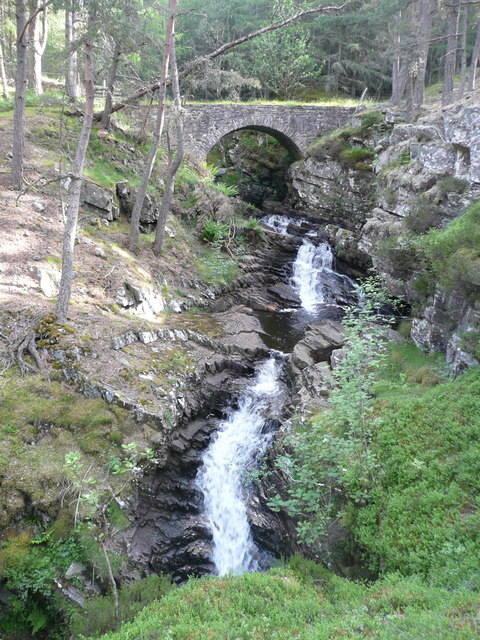 Drochaid na h-Uinneige This 'Eye of the Window Bridge' on General Wade's Military Road was built about 1728 across the Allt A'Chrombaidh. It crosses the top of a forbidding gorge, a major obstacle to the Military Road and still an obstacle for the Old and New A9 road bridges. This surely is 'the geograph' of the square!